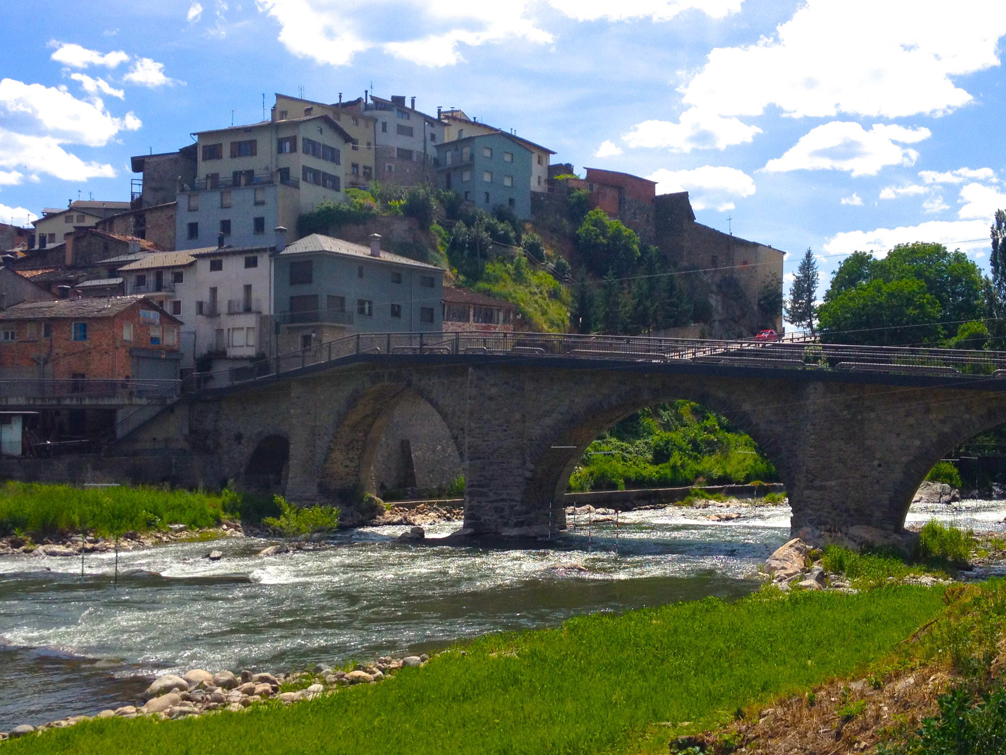 Pont d'Arfa, Ribera d'Urgellet.